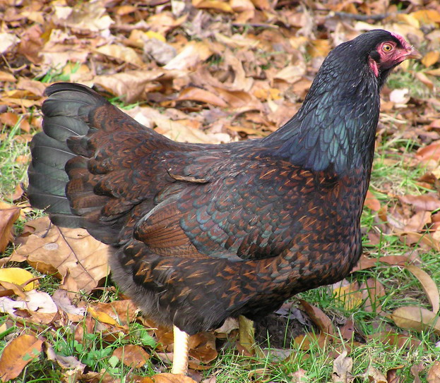 Dark Cornish Hen owned by Misty Lundberg